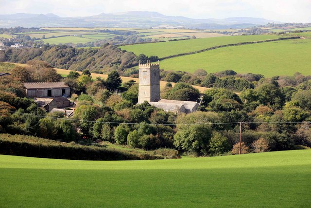 Lanteglos church Wonderful view here looking at Lanteglos church and then over Mid Cornwall with the clay tips above St Austell in the distance. Of course this view does not show the steep valleys in between. Beyond the church hidden is the river Fowey and Pont Creek.